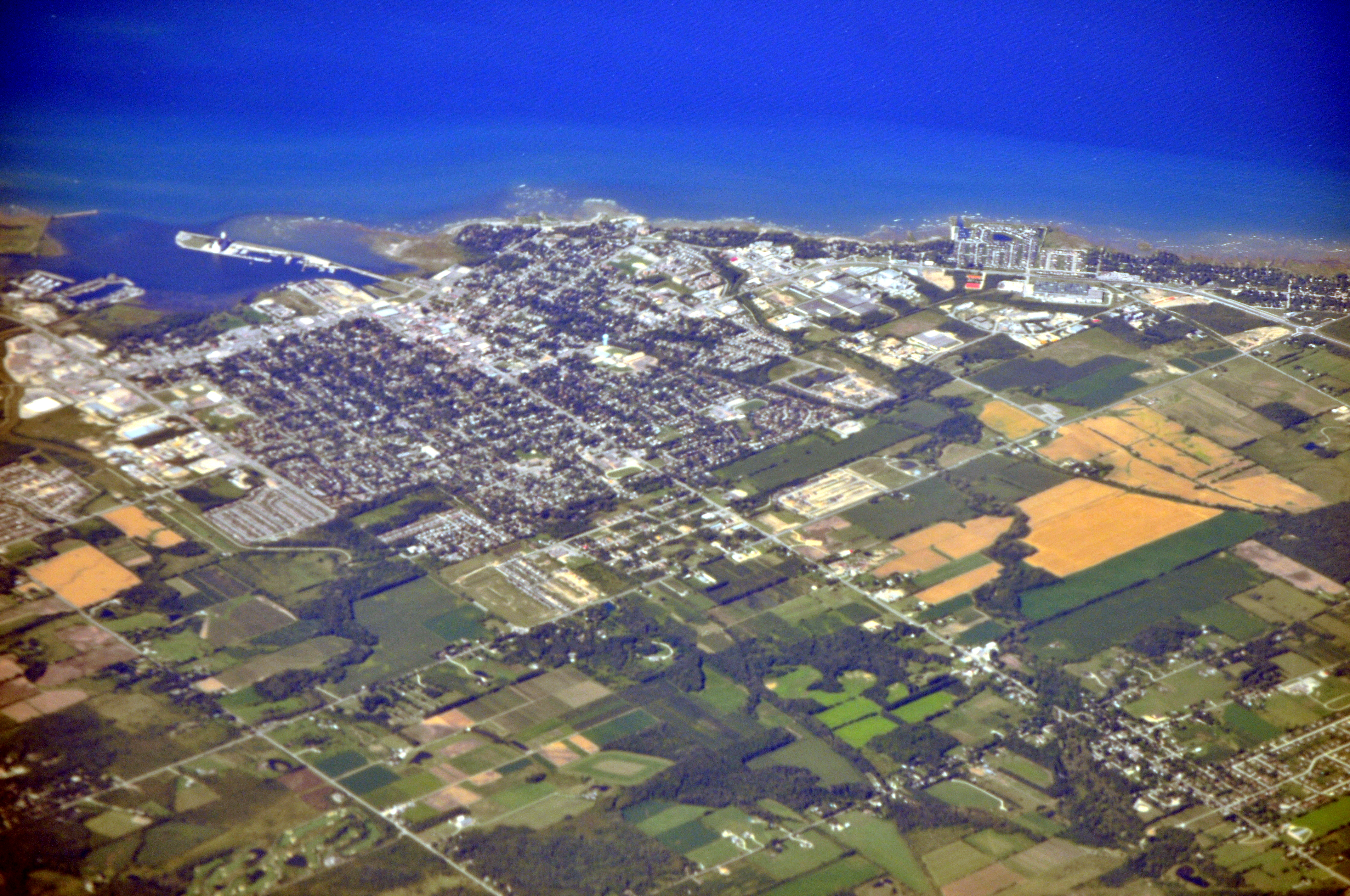 Aerial view of Collingwood, Simcoe County, Ontario, Canada.